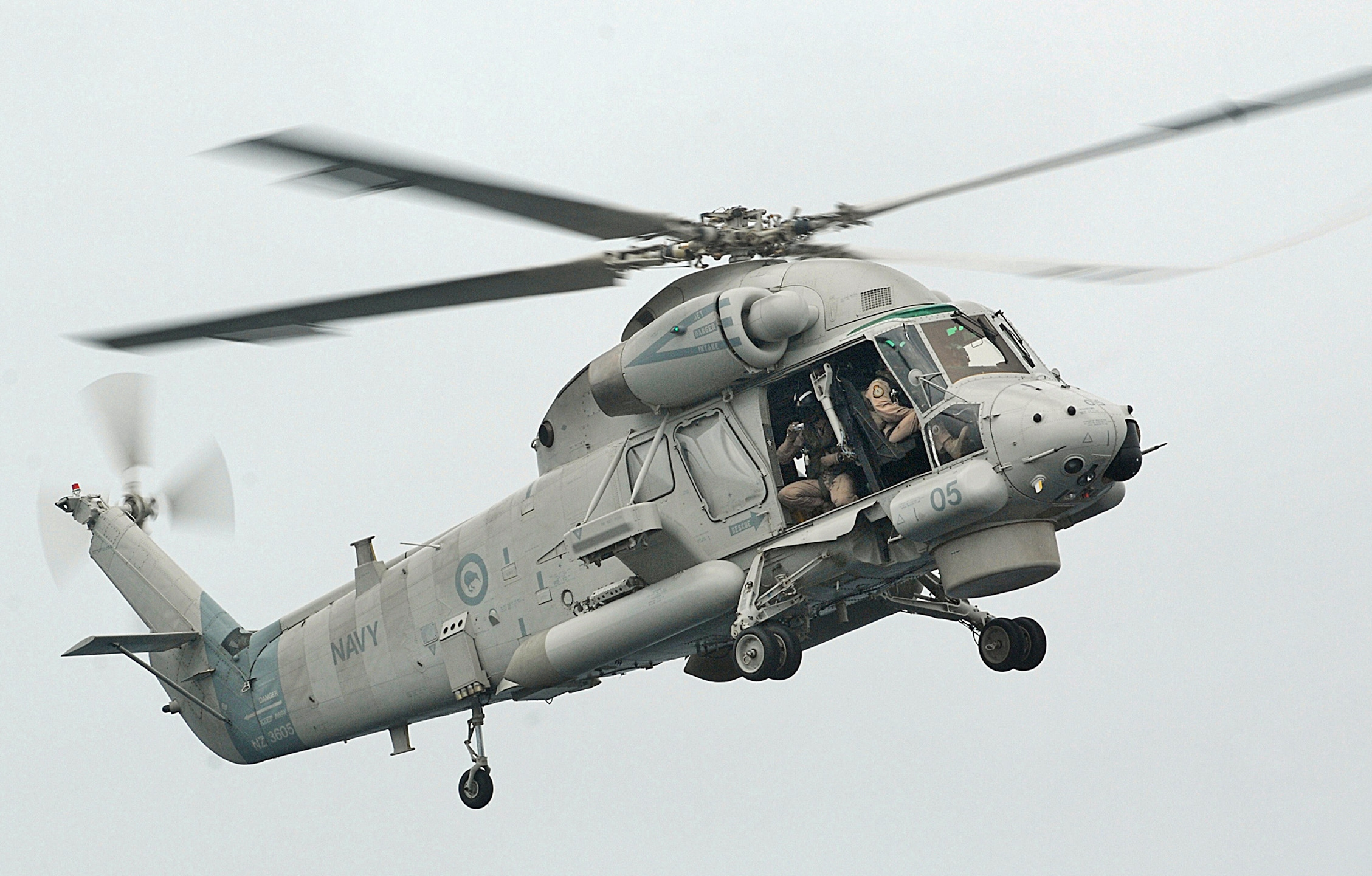 NORTH ARABIAN SEA (July 30, 2008) The Royal New Zealand Navy SH-2G Sea Sprite prepares to land aboard the Nimitz-class aircraft carrier USS Abraham Lincoln (CVN 72) during a Sailor exchange between the Lincoln and the Royal New Zealand Navy frigate HMNZS Te Mana (F111). Lincoln is deployed to the U.S. 5th Fleet area of operations supporting Operations Iraqi Freedom and Enduring Freedom as well as maritime security operations. (U.S. Navy photo by Mass Communication Specialist 3rd Class Justin R. Blake/Released)